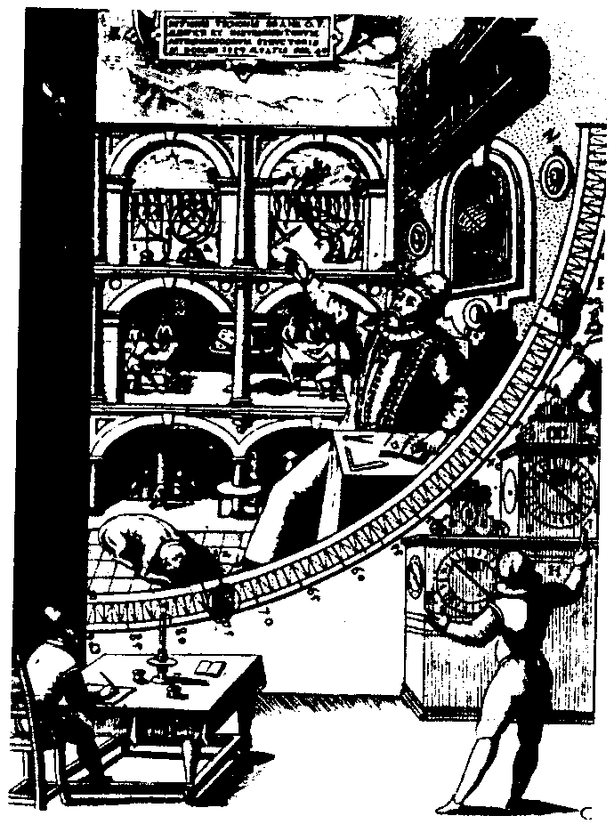 Tycho Brahe in his laboratory.